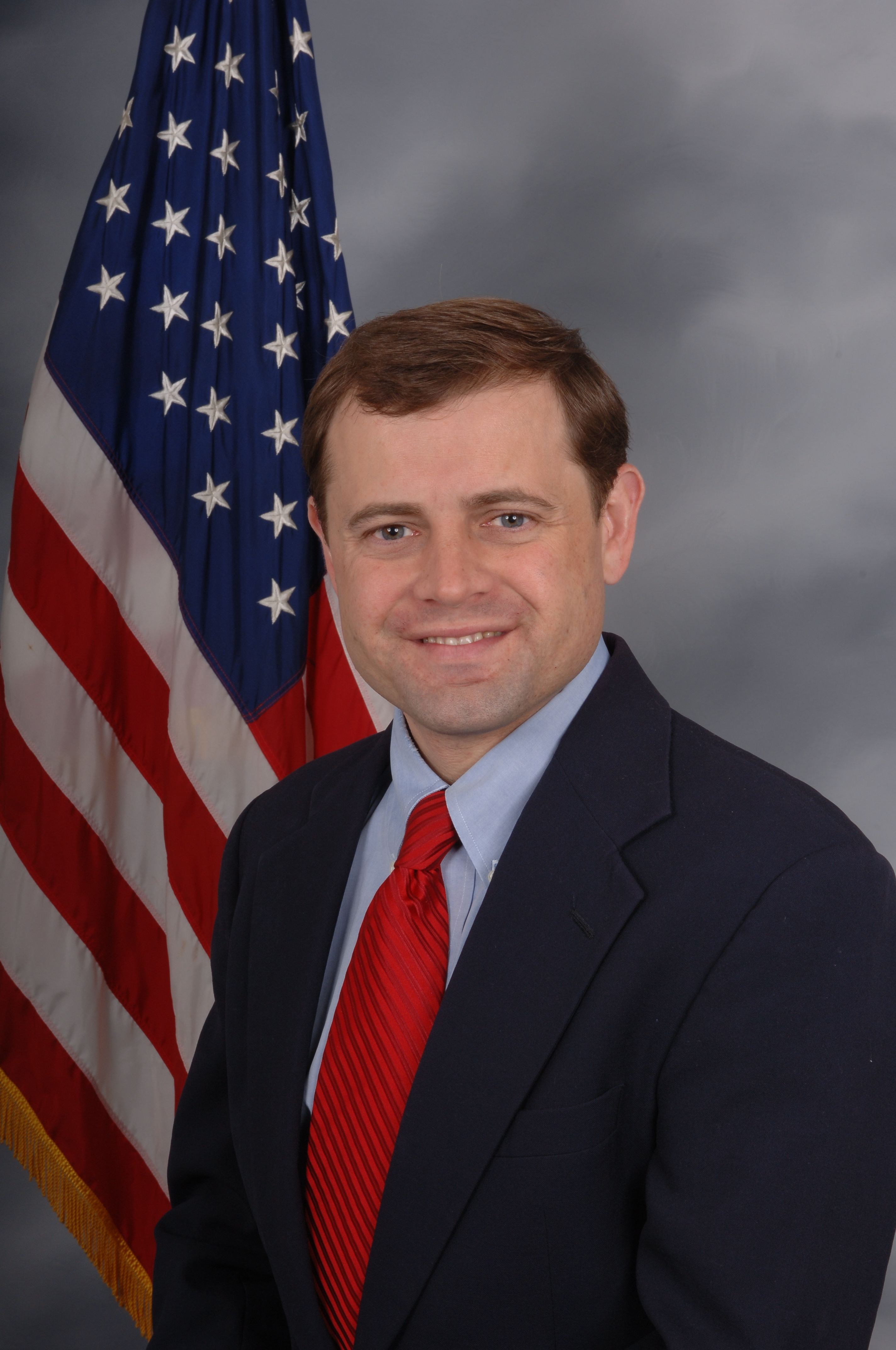 Official Congressional portrait of Rep. Tom Perriello (VA-05)